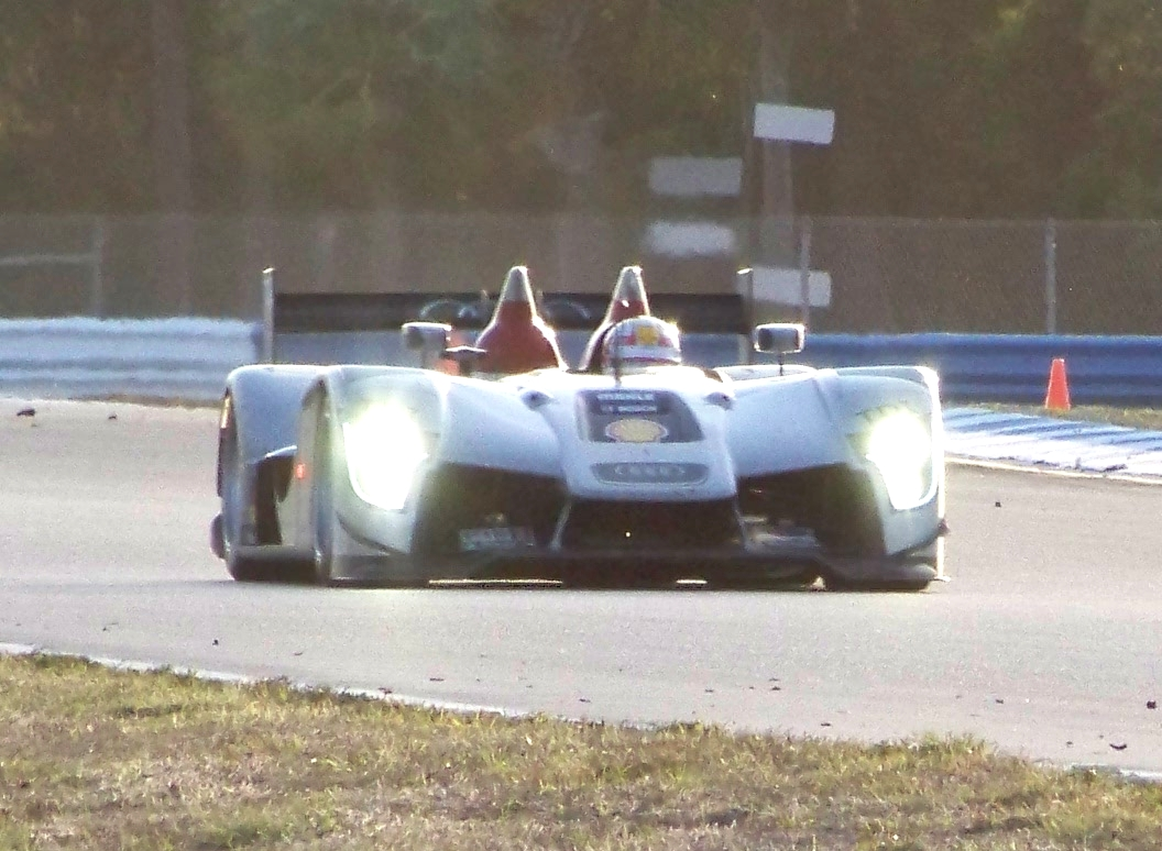 Audi R15 coming into the Fangio chicane during the 12 Hours of Sebring, March 21st, 2009